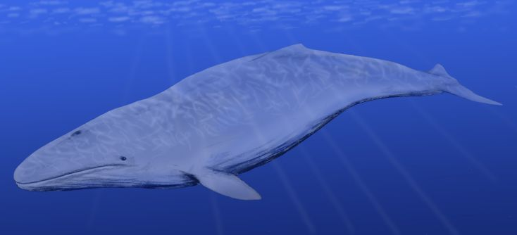 Cetotherium, a baleen whale from the mid-Late Miocene of Europe, Russia and North America, digital